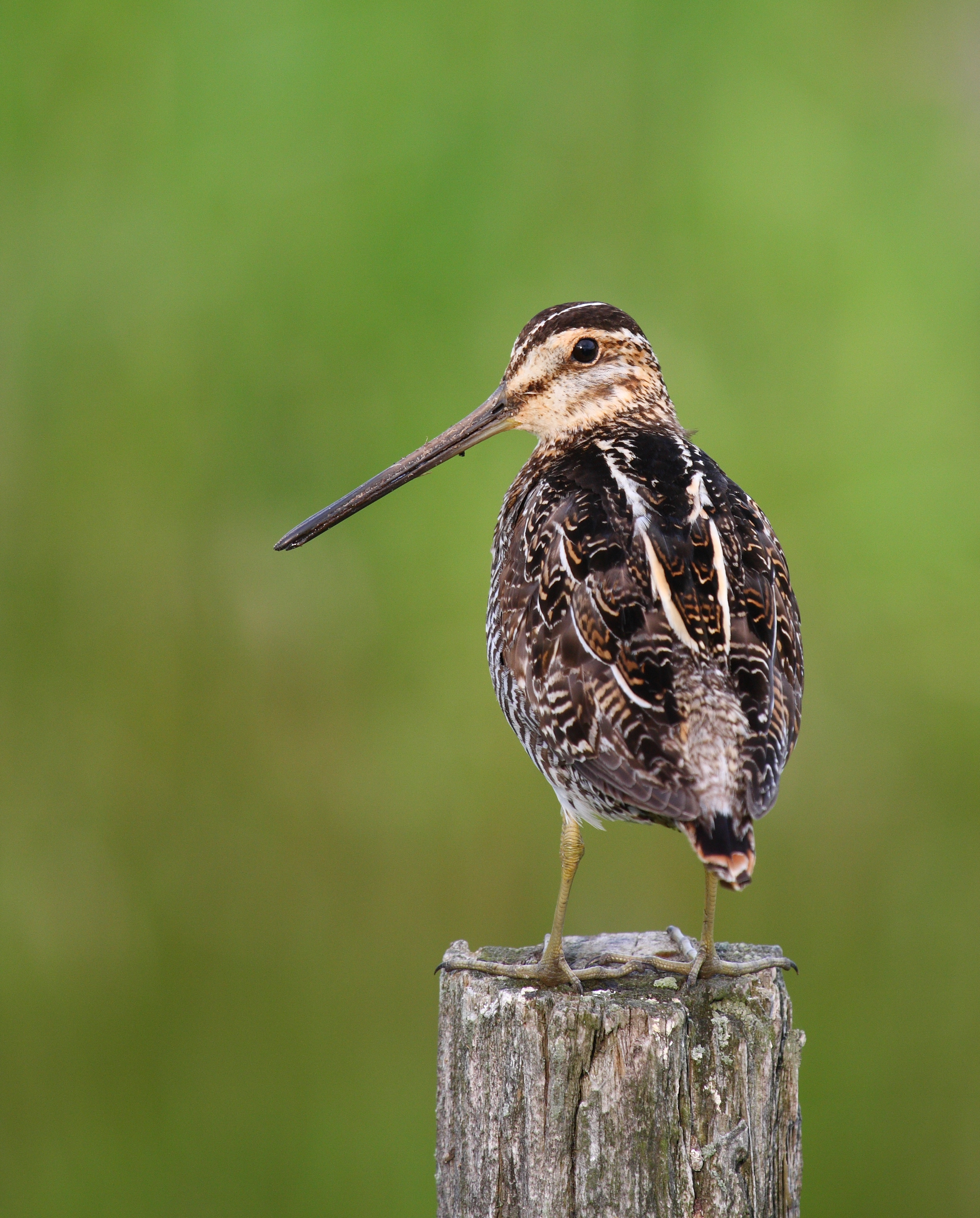 Wilson's Snipe, Refuge d'oiseaux de Nicolet, Quebec, Canada